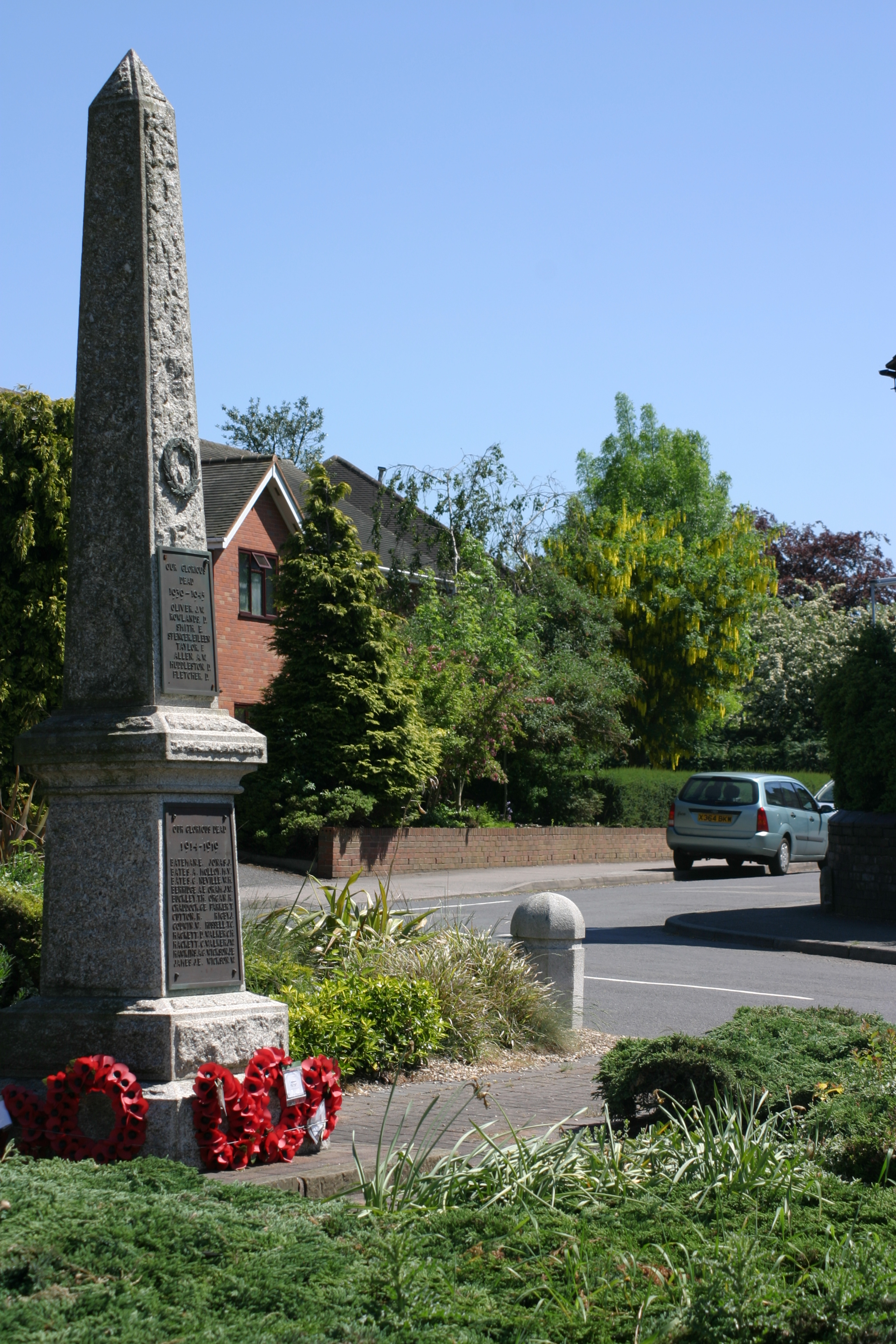 Photograph of the War Memorial, Shenstone, Staffordshire, England